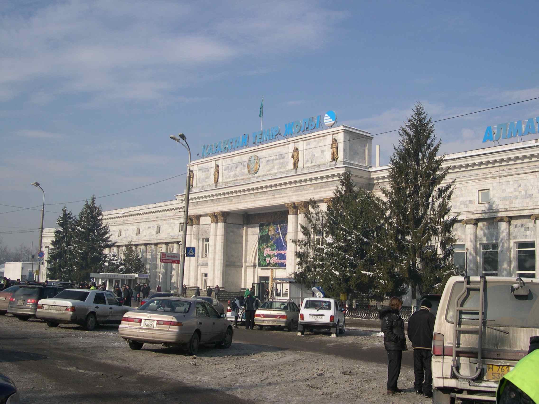 Waiting outside for our fixer to score tickets for the train to Taraz.